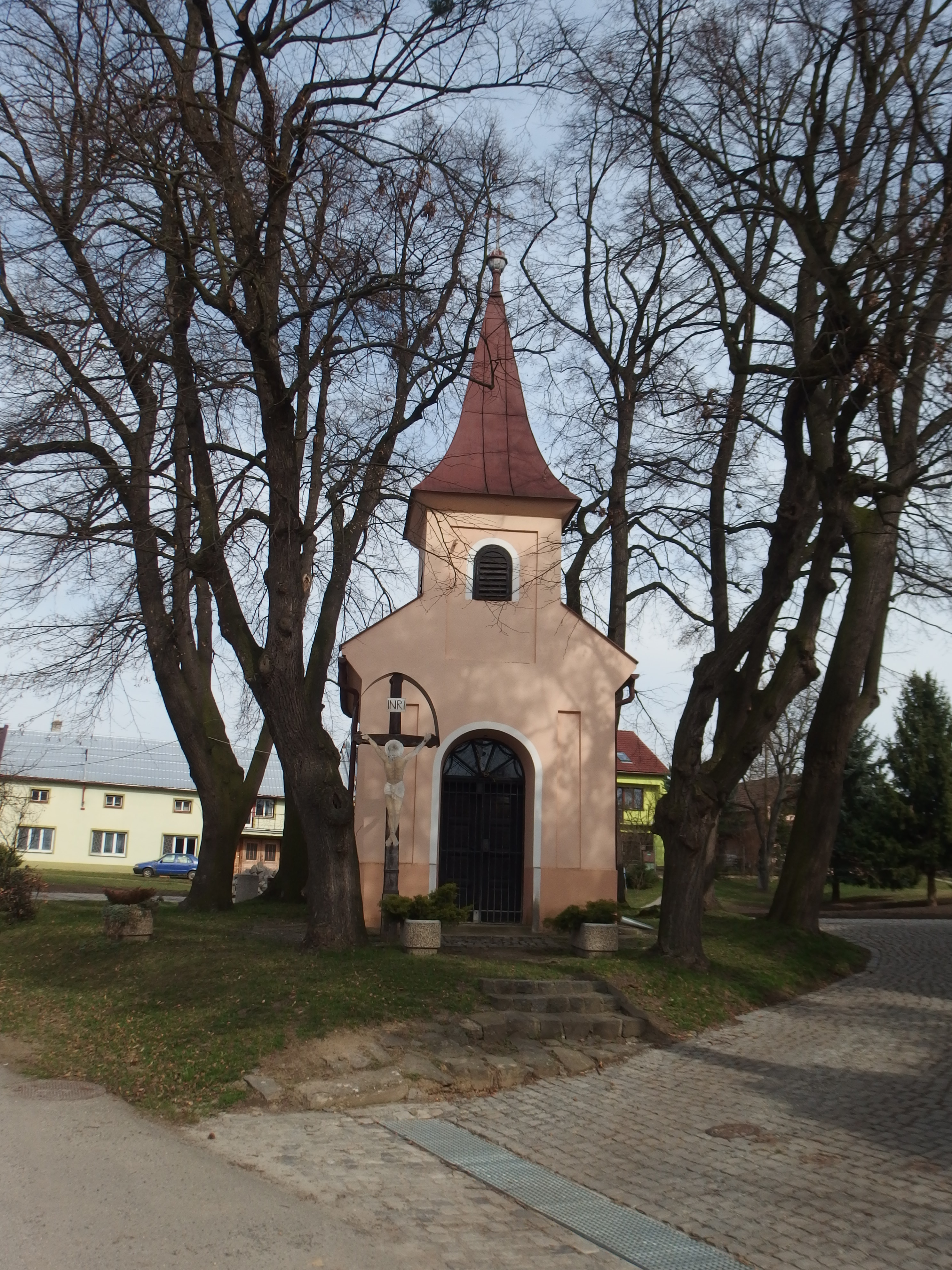 Doloplazy, Prostějov District, Czech Republic, part Poličky.